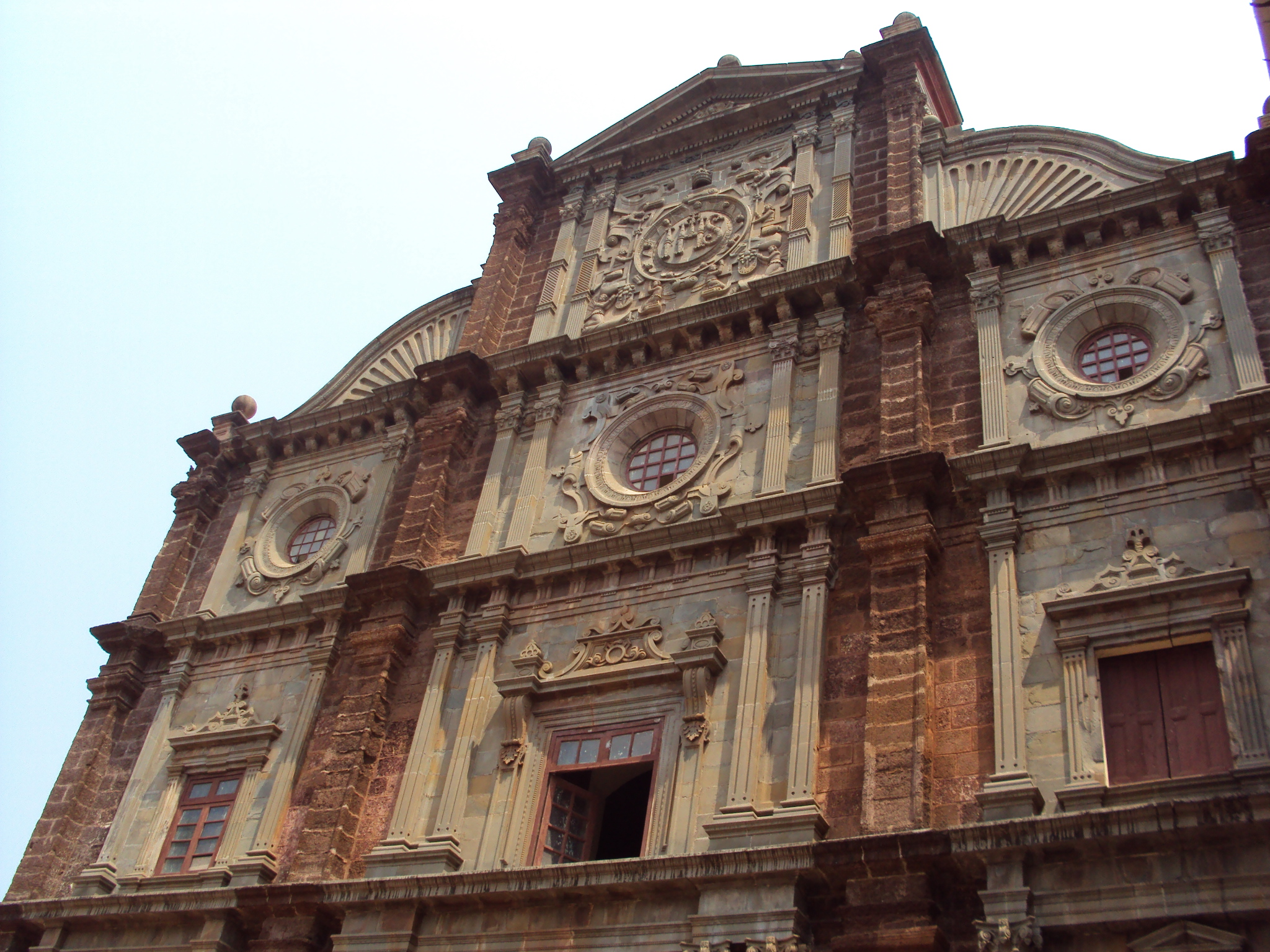 The church of St. Francis Xavier in Old Goa